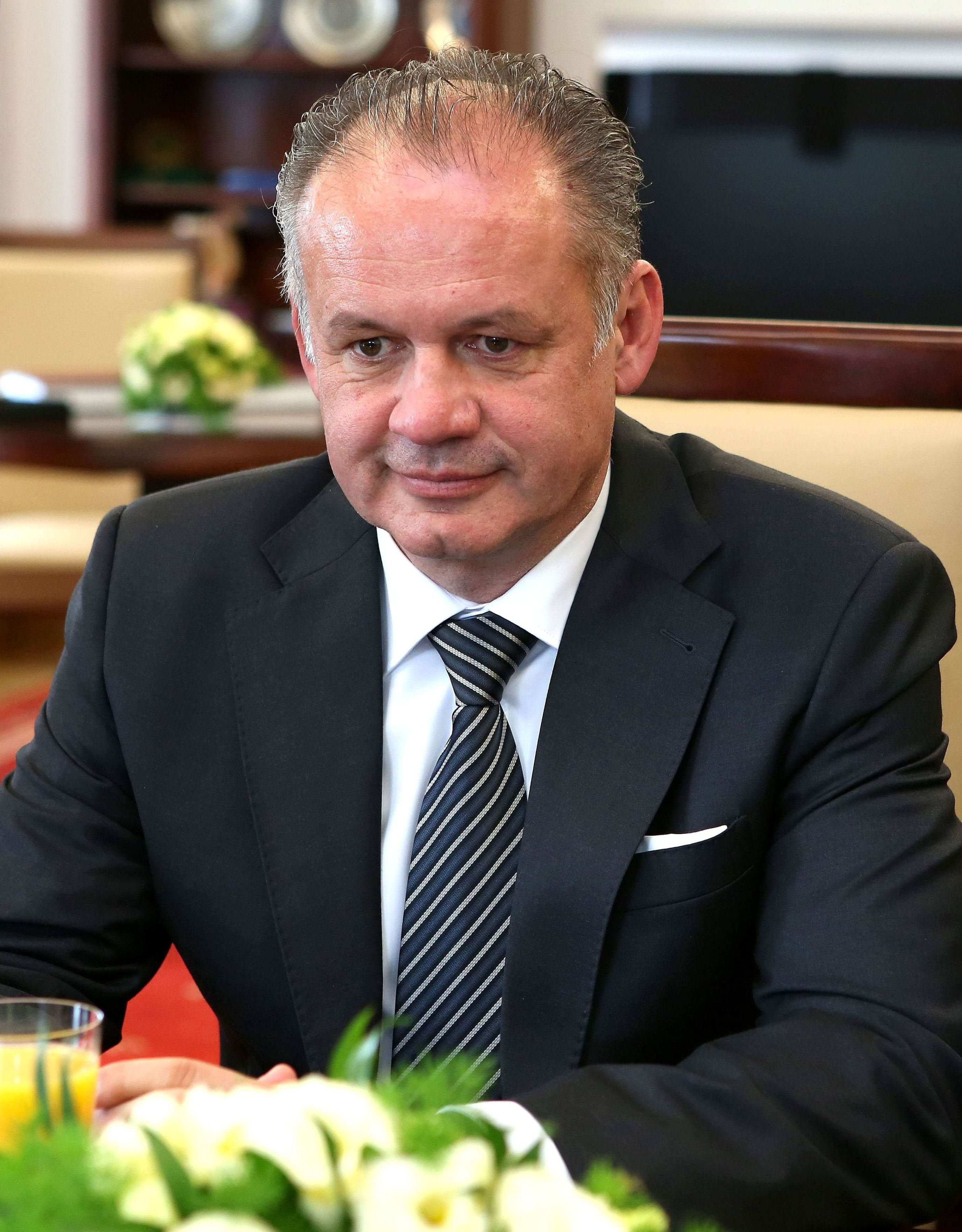 President of Slovakia Andrej Kiska in the Polish Senate